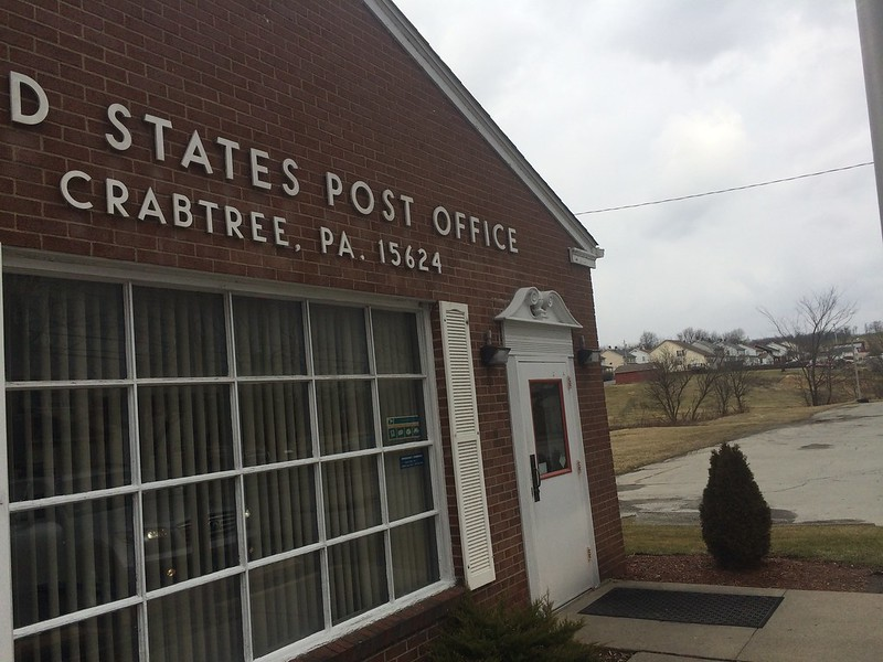 US Post Office located on US Route 119, Crabtree PA USA. Looking northeast.